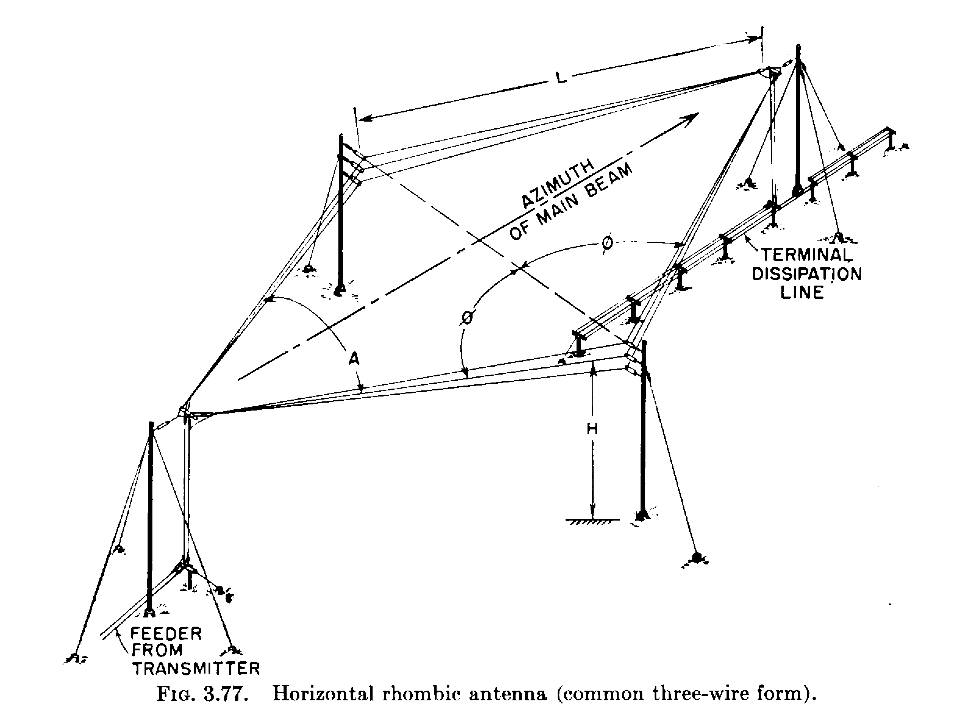 Figure 3.77: Horizontal rhombic antenna (common three-wire form). This is a directional wire antenna used on the MF and HF bands. It consists of one to three wires in a rhombus (diamond) shape, suspended high above the ground from poles or towers at the corners of the rhombus, with insulators. The antenna is fed through a balanced transmission line at one end of the rhombus, and terminated in a resistance at the other end. In the above rhombic the termination is not a resistor but a dissipative transmission line. The main lobes of the radiation pattern are off the sharp ends of the rhombus.